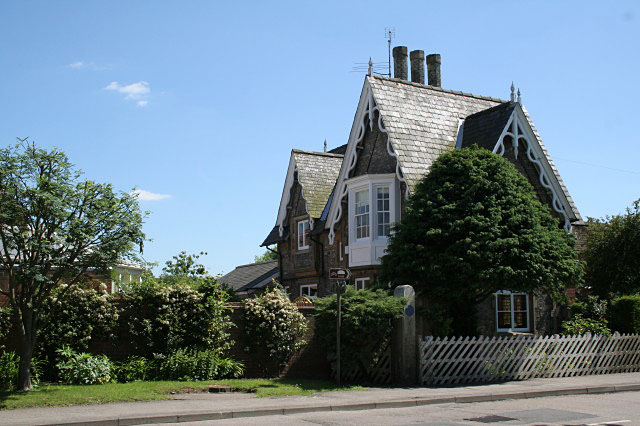 Southwell Original description: Old Station house Originally the terminus of a branch line off the Nottingham - Newark line. The line was extended to Mansfield and was used latterly for coal traffic after passenger services ceased. One gatepost of the old level crossing can be seen. This carries a blue plaque with details of the railway history.